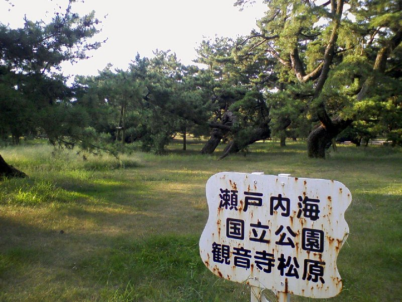 Kan'onji Pine Grove, Kotohiki Park, Kan'onji, Kagawa, Japan